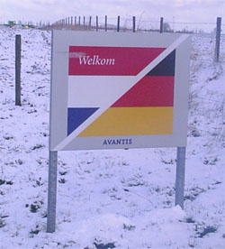 Welcome sign Avantis in Dutch Picture own work, all rights released!